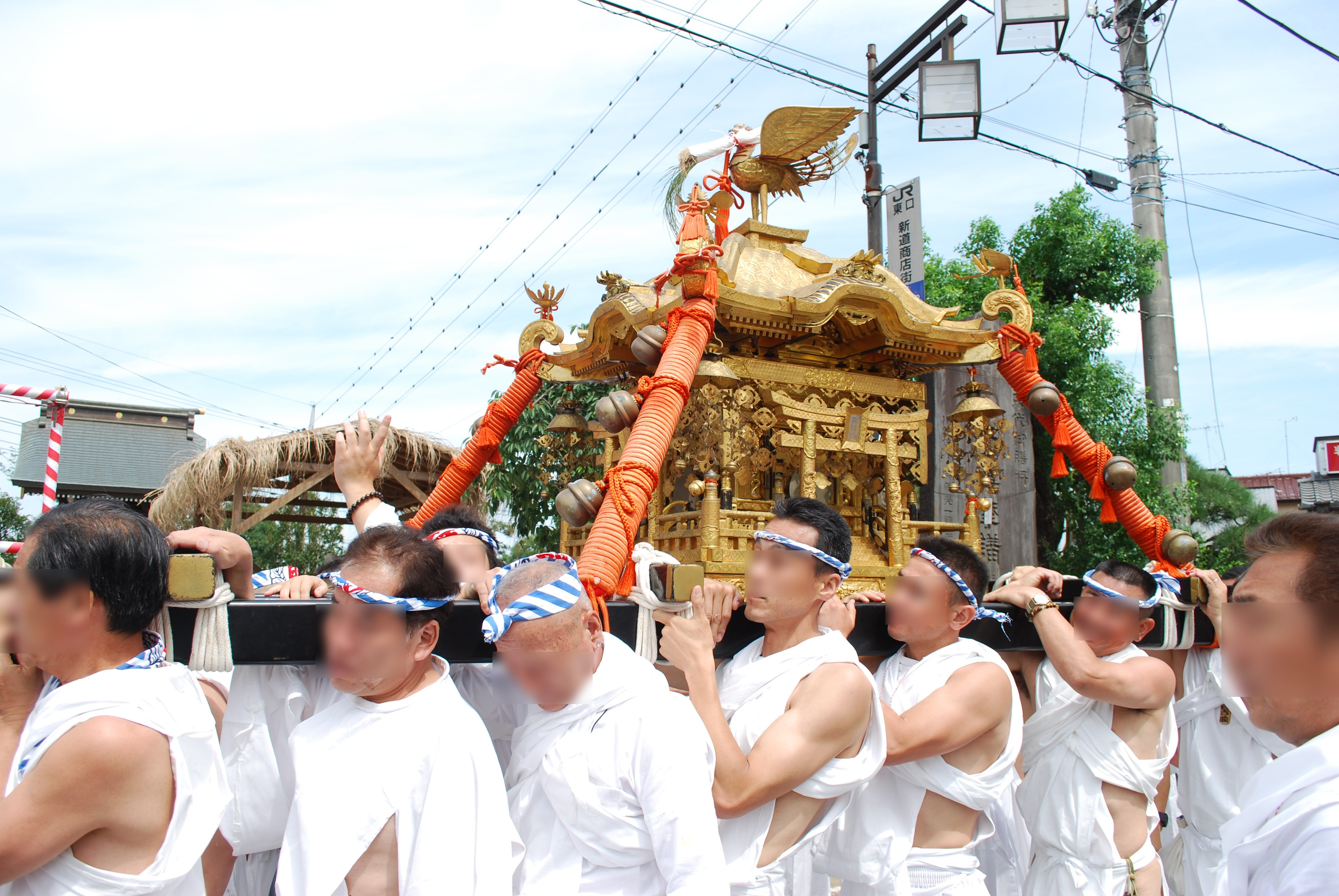 Narita-gion-festival,portable shrine,Narita-city,Japan